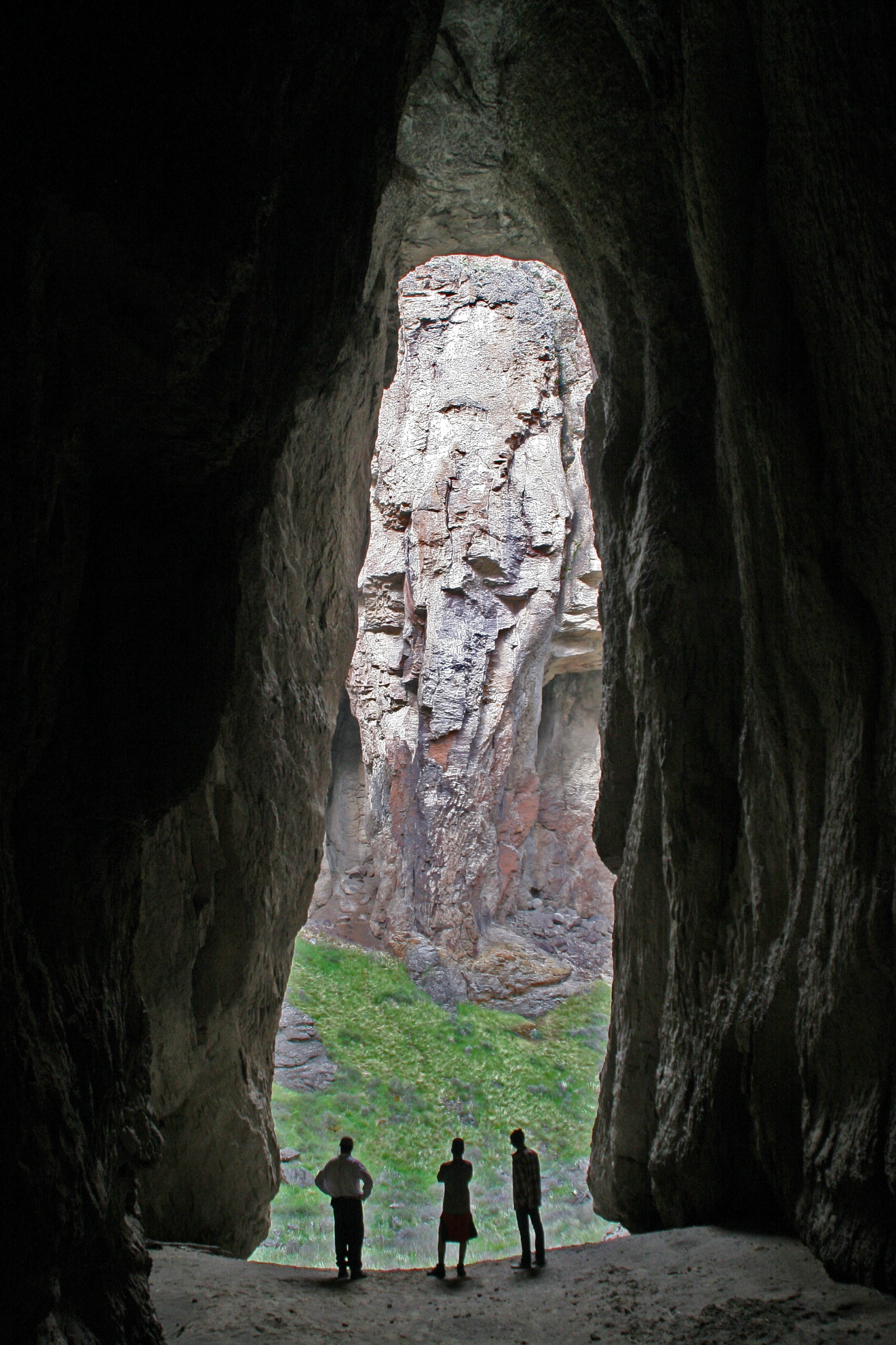 The Owyhee Canyonlands Wilderness features unique rhyolite pinnacle formations known as “hoodoos,” cold-water streams, and canyons ranging in height from 250 to over 1000 feet. This remote and rugged landscape has outstanding opportunities for solitude, very low levels of human impacts, and primitive recreational opportunities. The Bruneau-Jarbidge River System flows north from the mountains of northern Nevada through the basalt and rhyolite canyons of the Owyhee Uplands to the Snake River in southern Idaho. Nearly 40 floatable miles of the Bruneau River are designated as wild and scenic.